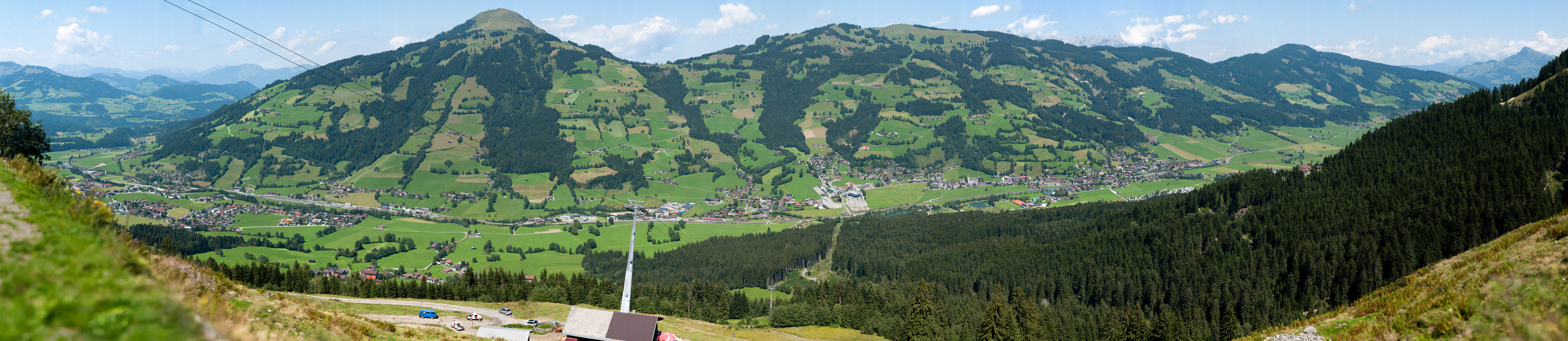 View onto Brixen. Full Resolution image (282.984x61.721) is available at